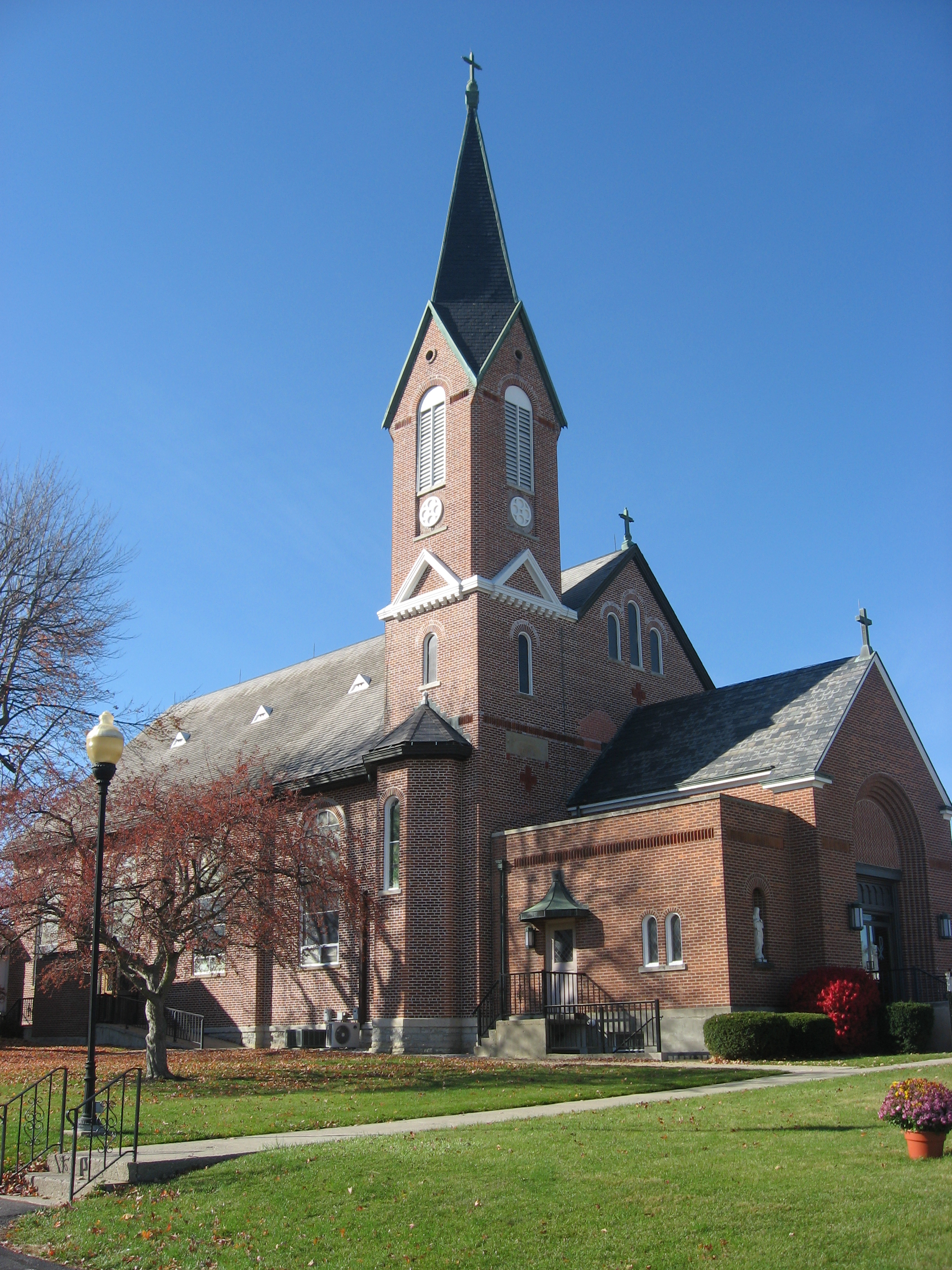 Eastern side of St. Remy Catholic Church, located on E. Main Street in Russia, Ohio, United States. Built in 1890, the church was added to the National Register of Historic Places as a part of the Cross-Tipped Churches of Ohio Thematic Resources.